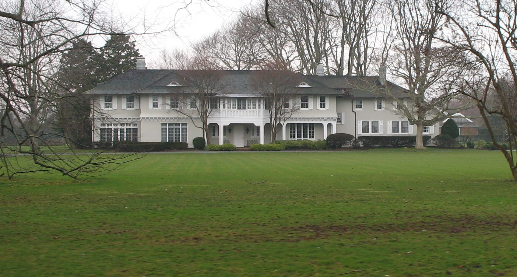 Lasata, the girlhood home of Jacqueline Kennedy Onassis in East Hampton (village), New York. Photo by poster in January 2007.